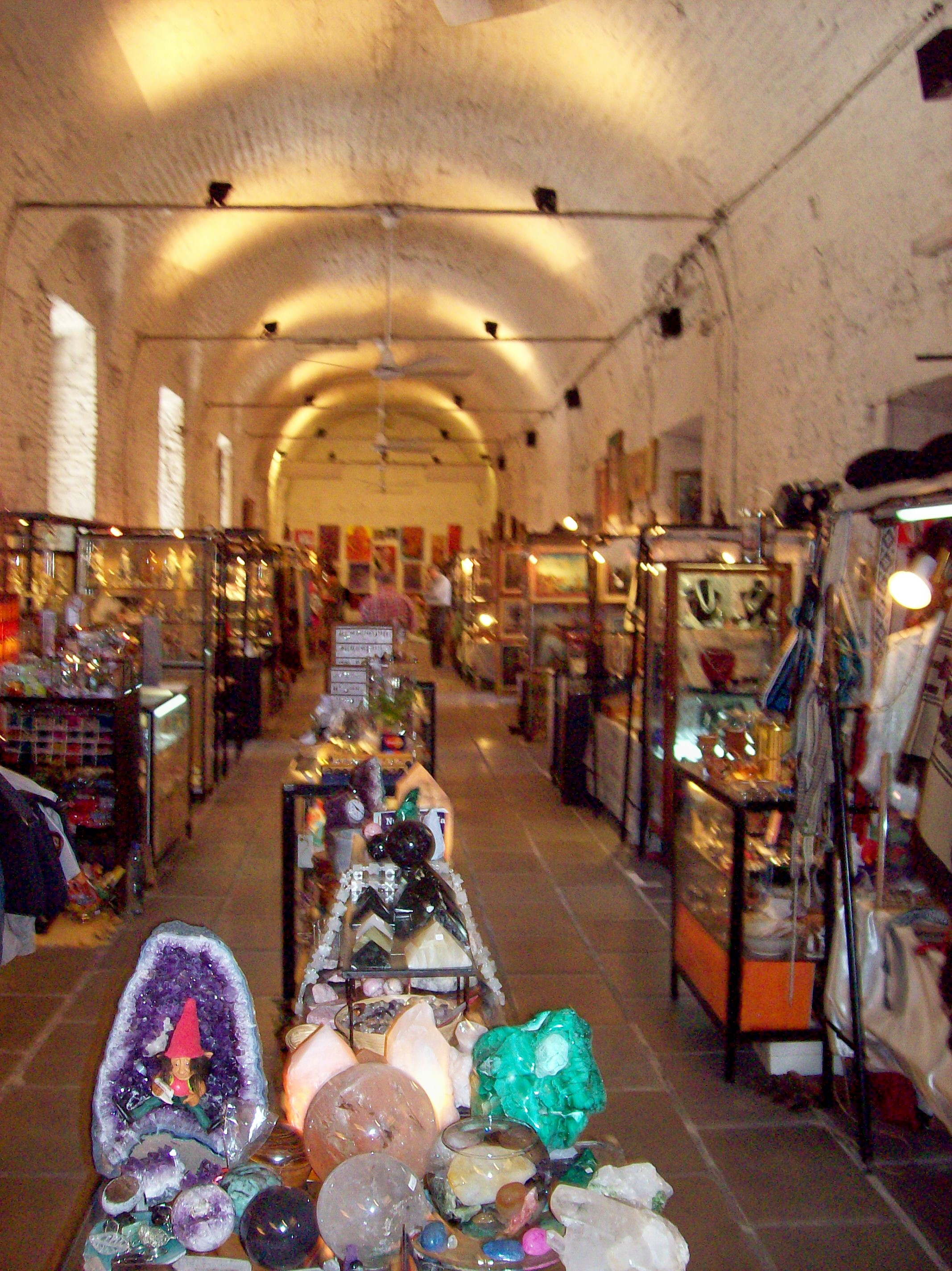 Manzana de las Luces, in "Barrio de Monserrat", Buenos Aires, near Plaza de Mayo. Inside of the handicrafts' market, NW corner (Perú y Julio Argentino Roca)